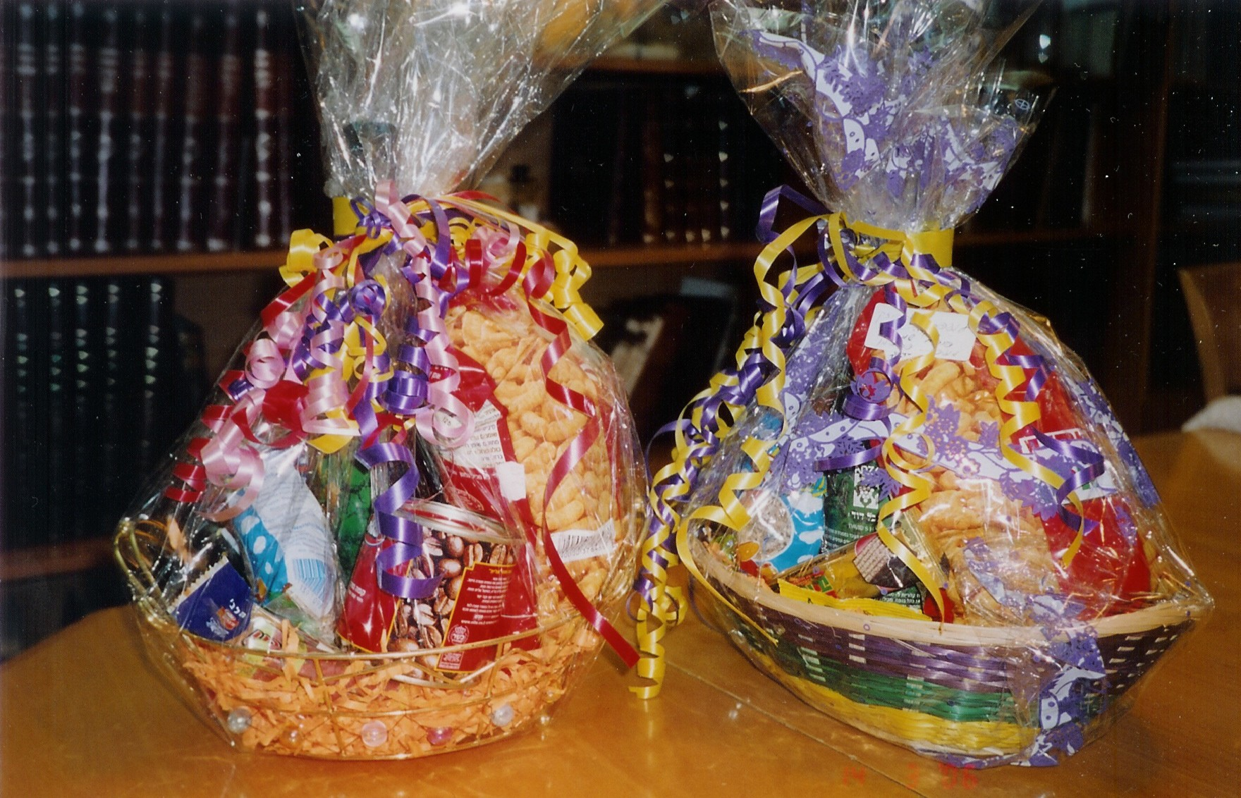 Two baskets of Purim mishloach manot. Photo by Yoninah 01:00, 21 March 2006 (UTC), taken on March 14, 2006.